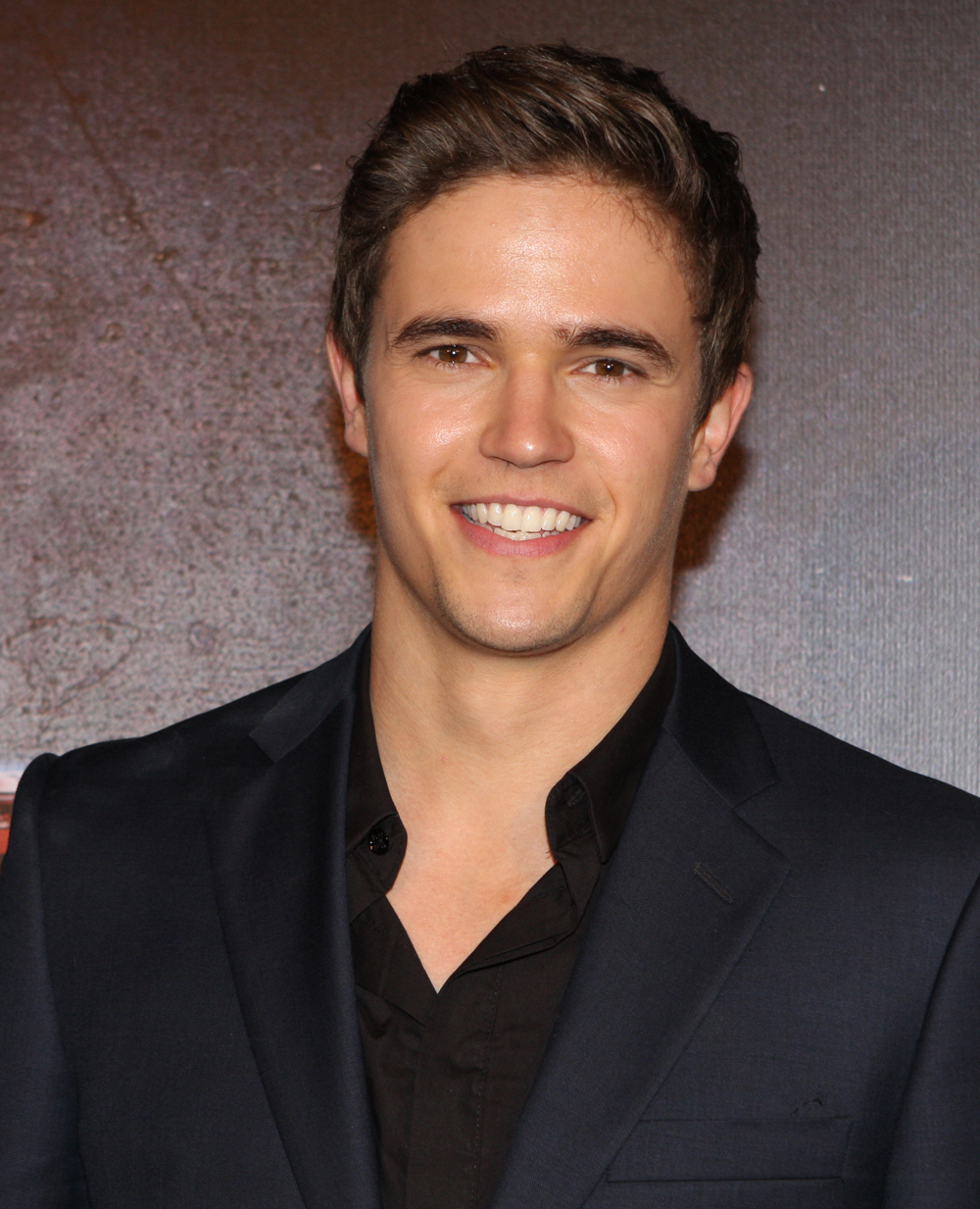 Man Of Steel red carpet movie premiere, Sydney